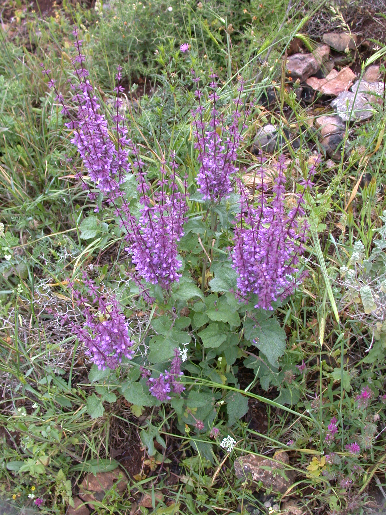 Salvia judaica Boiss. (מרוות יהודה), Nachal Rakefet, Mount Carmel, Israel, April 18, 2006.